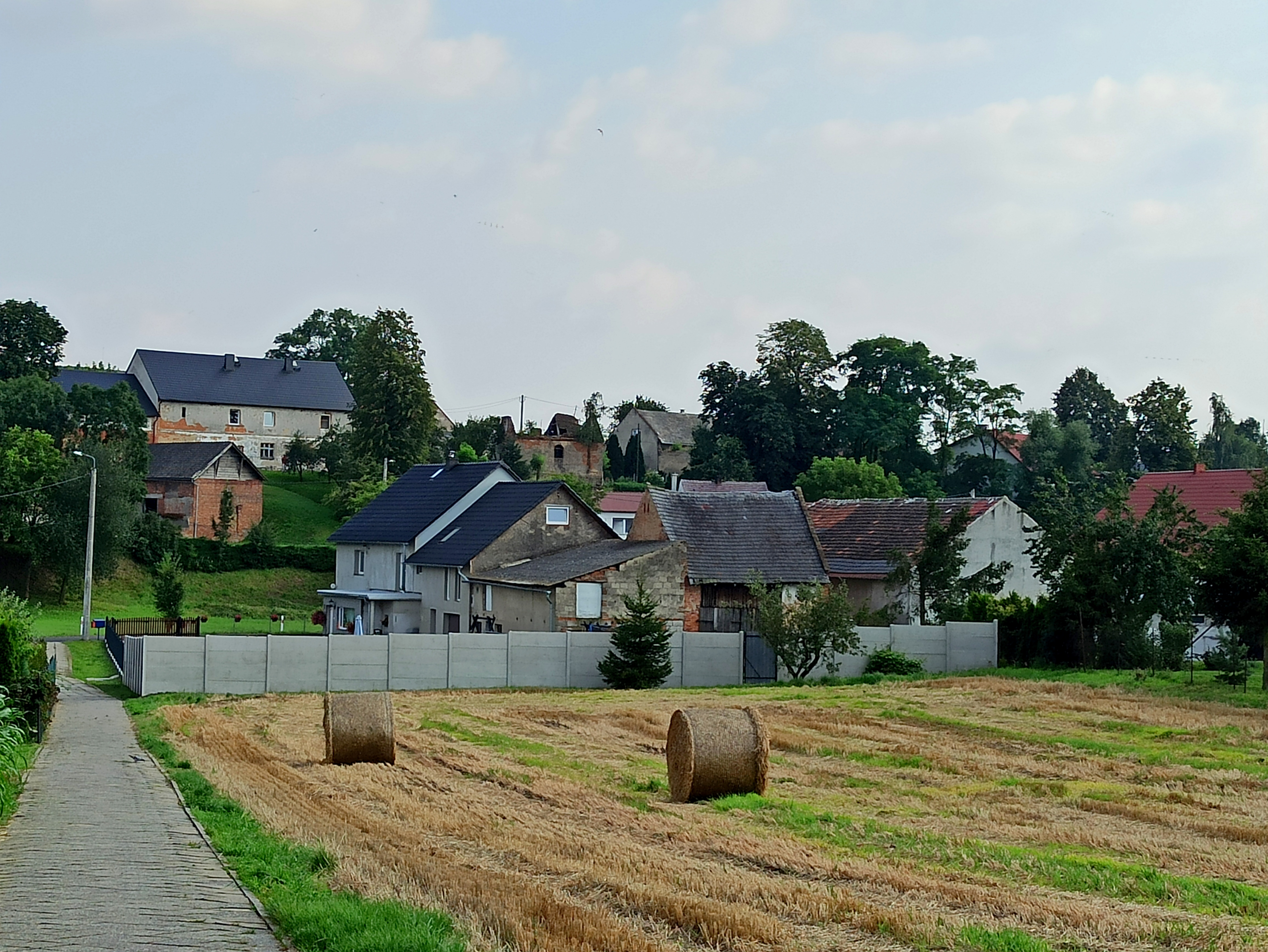 Czyżowice, Opole Voivodeship, Poland.